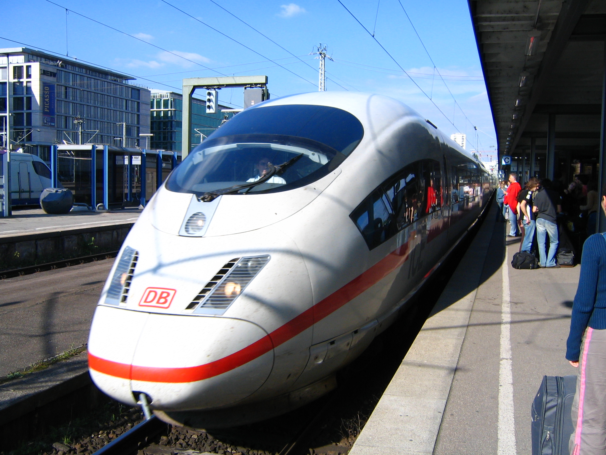 Deutsche Bahn InterCityExpress train at Stuttgart Hauptbahnhof.